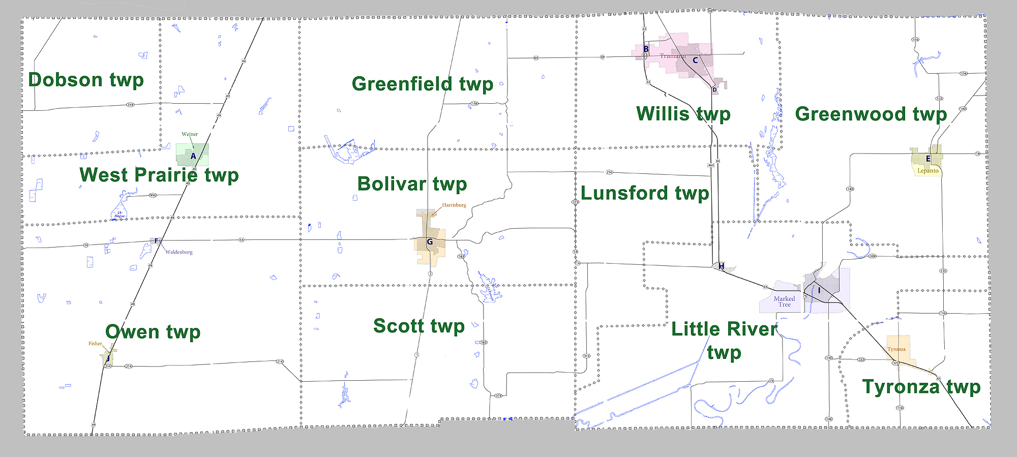 Large map showing townships in Poinsett County, Arkansas. Modified from US census map (for 2010 census) for Poinsett County, Arkansas